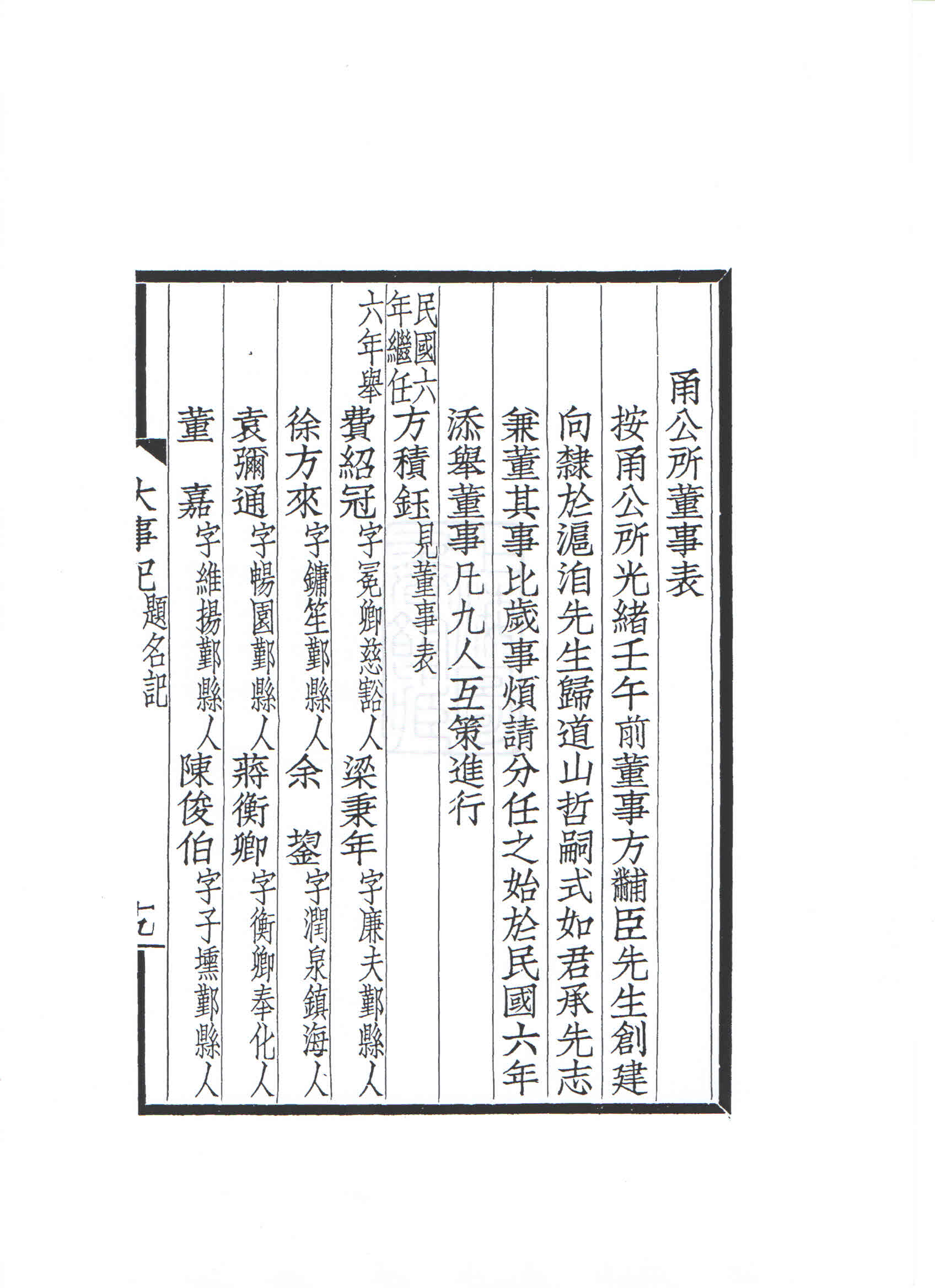 List of Si-Ming Guild Directors (page 7)